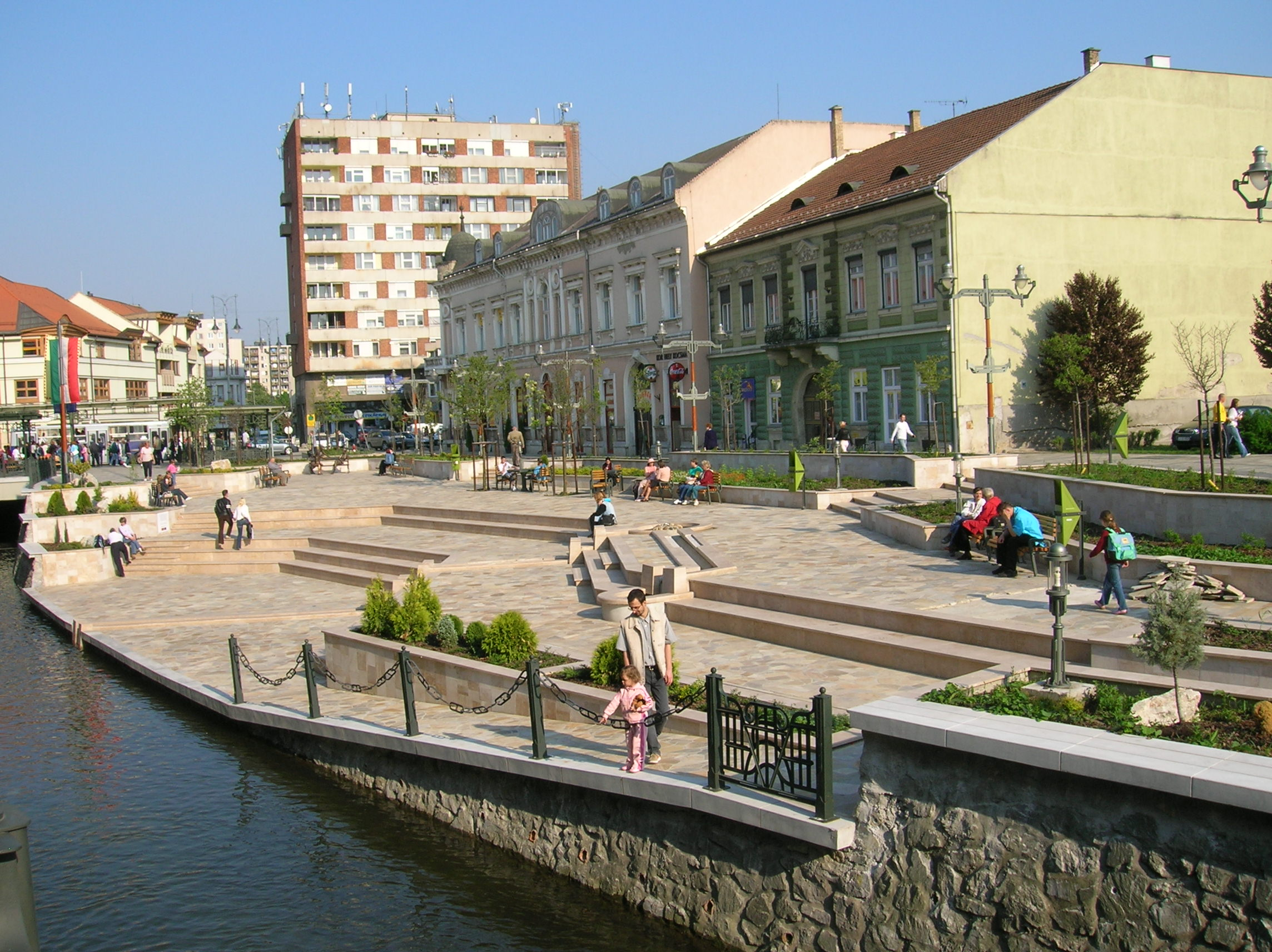 The Szinva Terrace new public square at the Szinva stream, Miskolc, Hungary.